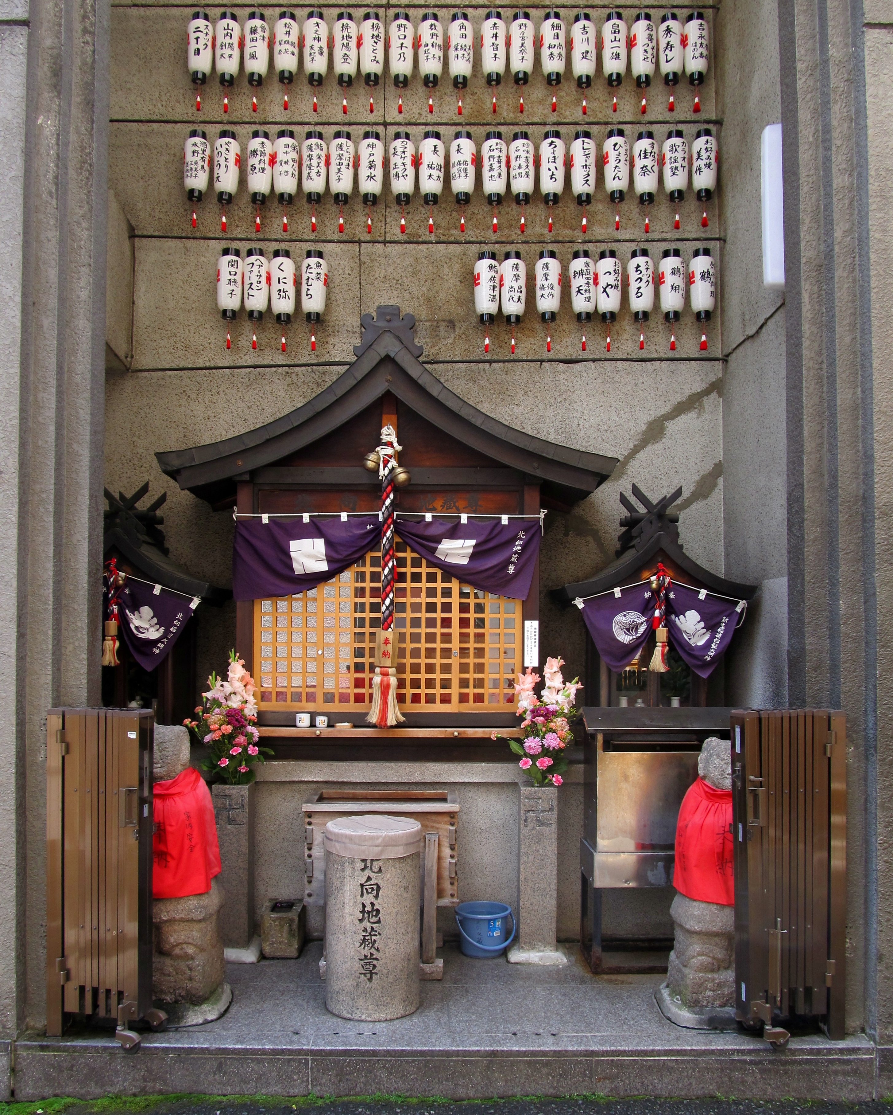 Kitamuki-Jizō(Chūō-ku,Kobe,Hyogo,Japan)